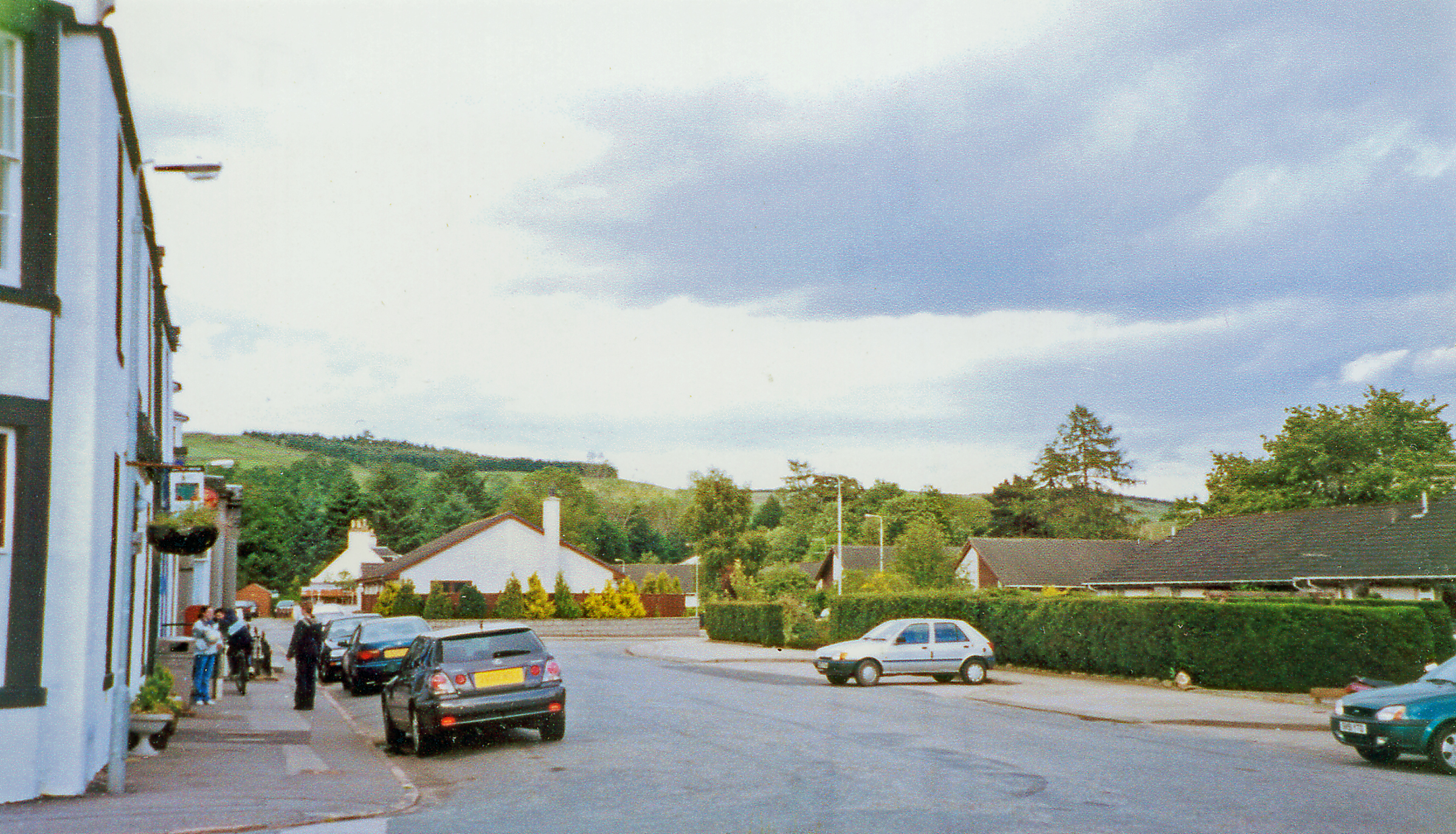 Lumphanan: near site of station, 2002. View eastward from A980 Perkhill Road: ex-GNSR Aberdeen - Ballater (Deeside) line. The station and line were closed 28/2/66, the completely 18/7/66.